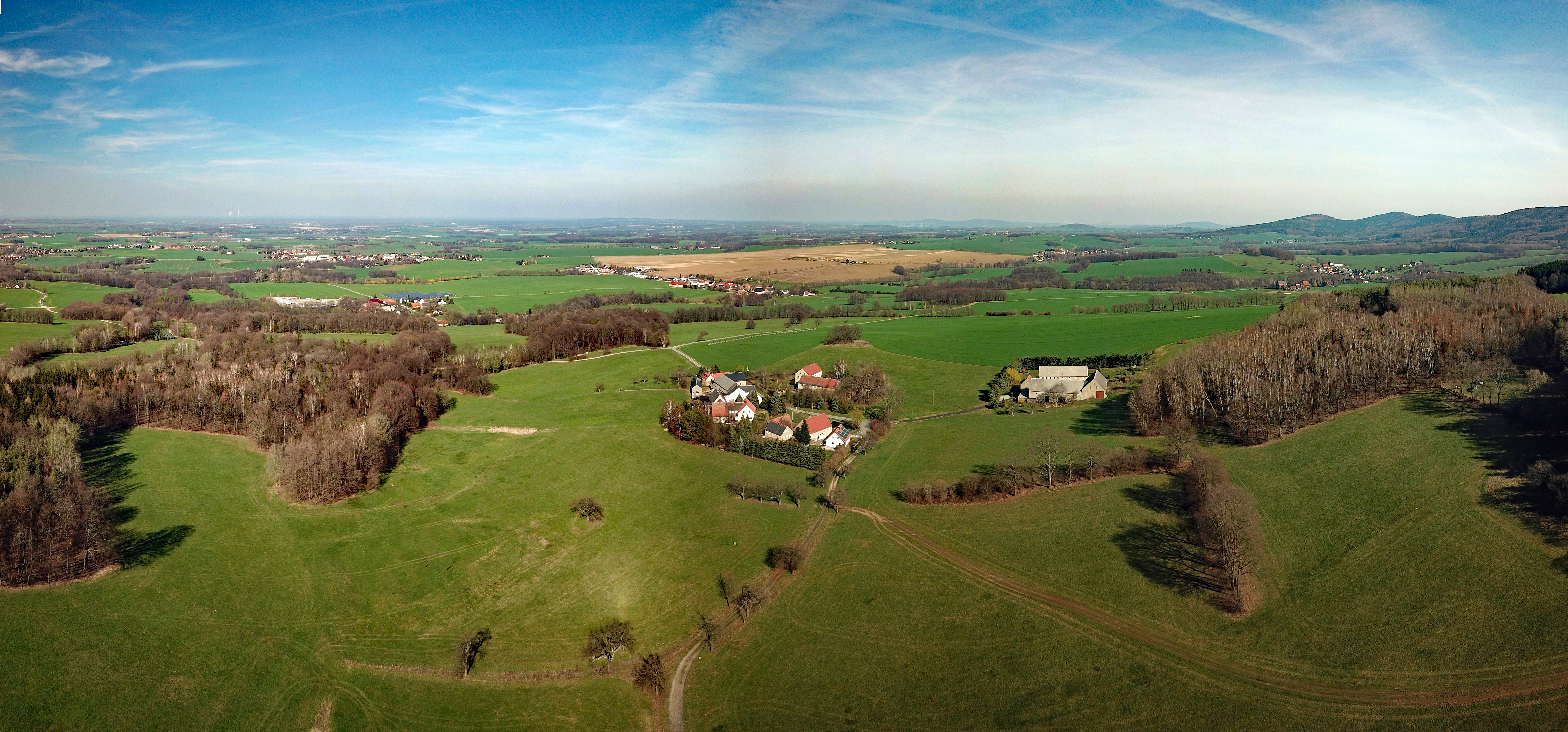 Weißig (Kubschütz, Saxony, Germany) Hornjoserbsce: Powětrowy wobraz Wysokeje pola Kubšic Dieses Foto wurde mit einem Quadcopter innerhalb der RMZ des Flugplatzes EDAB aufgenommen. Der Flugleiter wurde am Aufnahmetag telephonisch über Ort und Zeit informiert und hat zugestimmt. Der Flug erfolgte auf Grundlage der Allgemeinverfügung der Landesdirektion Sachsen zur Erteilung der Betriebserlaubnis für unbemannte Luftfahrtsysteme und Flugmodelle gemäß § 21a LuftVO und Zulassung von Ausnahmen von Betriebsverboten gemäß § 21b LuftVO für den Freistaat Sachsen.